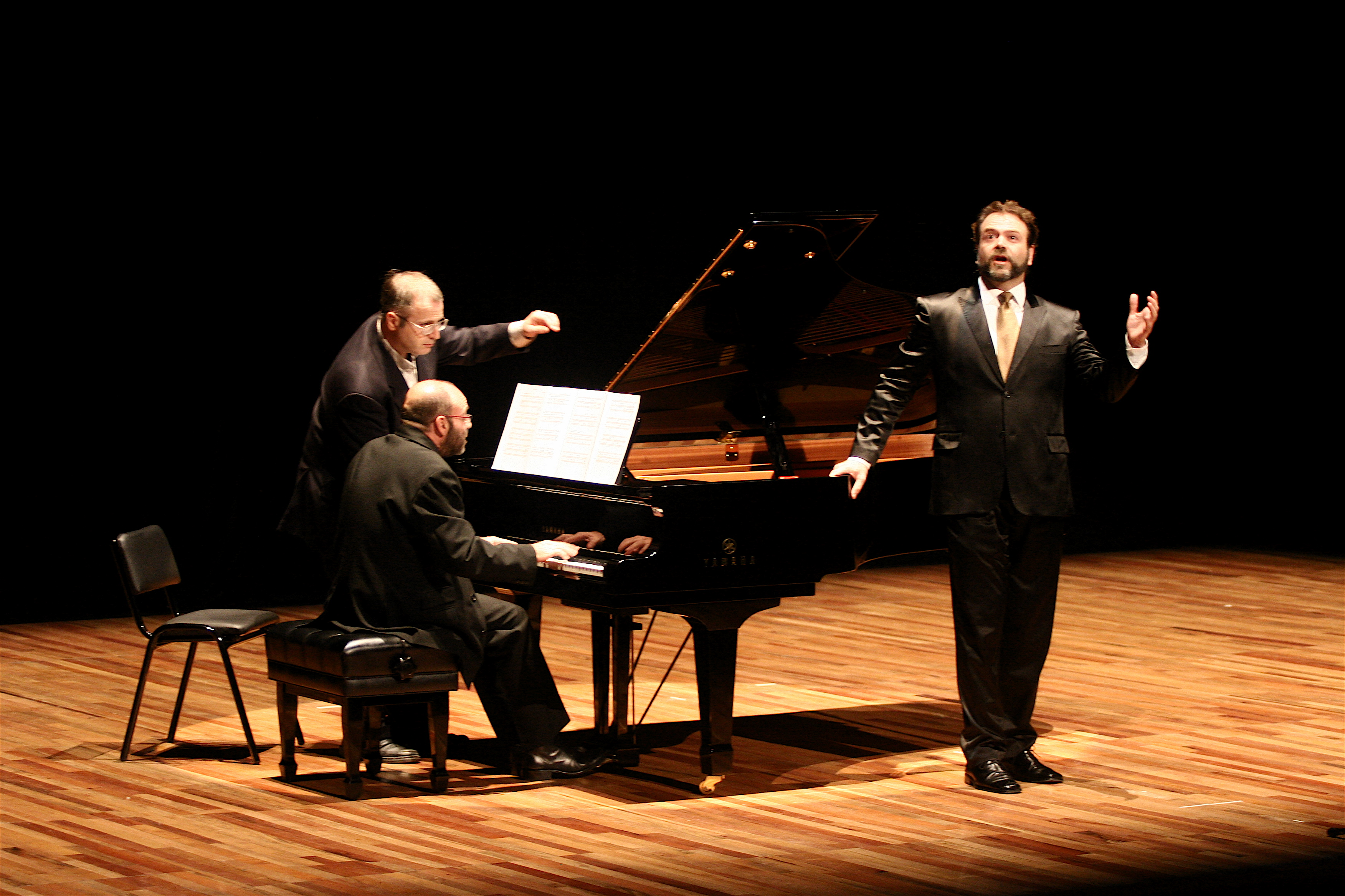 Gerardo Garcíacano and Silvano Zabeo, at Ars Vocalis México